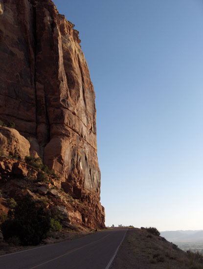 Rim Rock Drive, Colorado National Monument, Colorado, USA